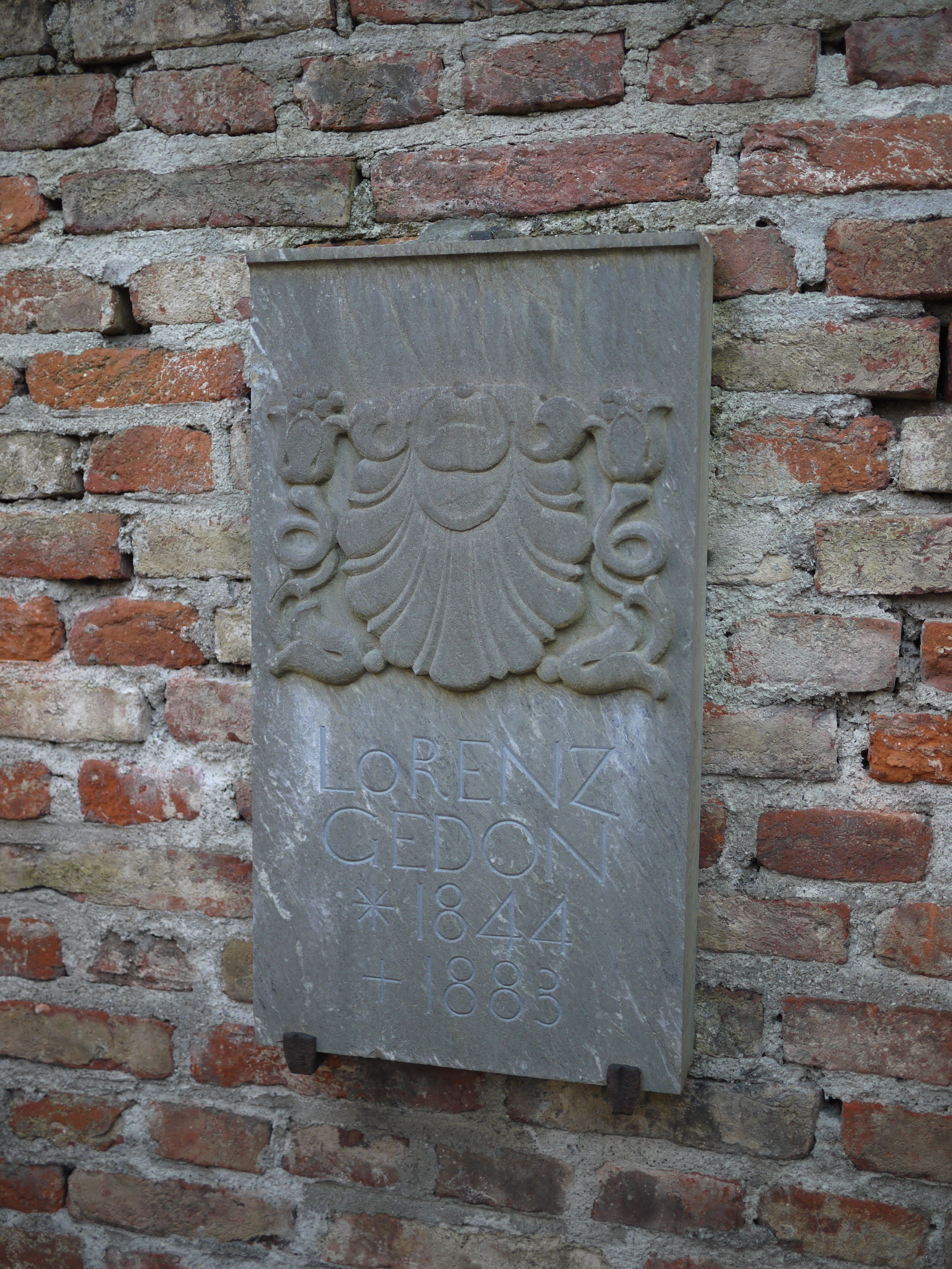 Lorenz Gedon *1844 +1883